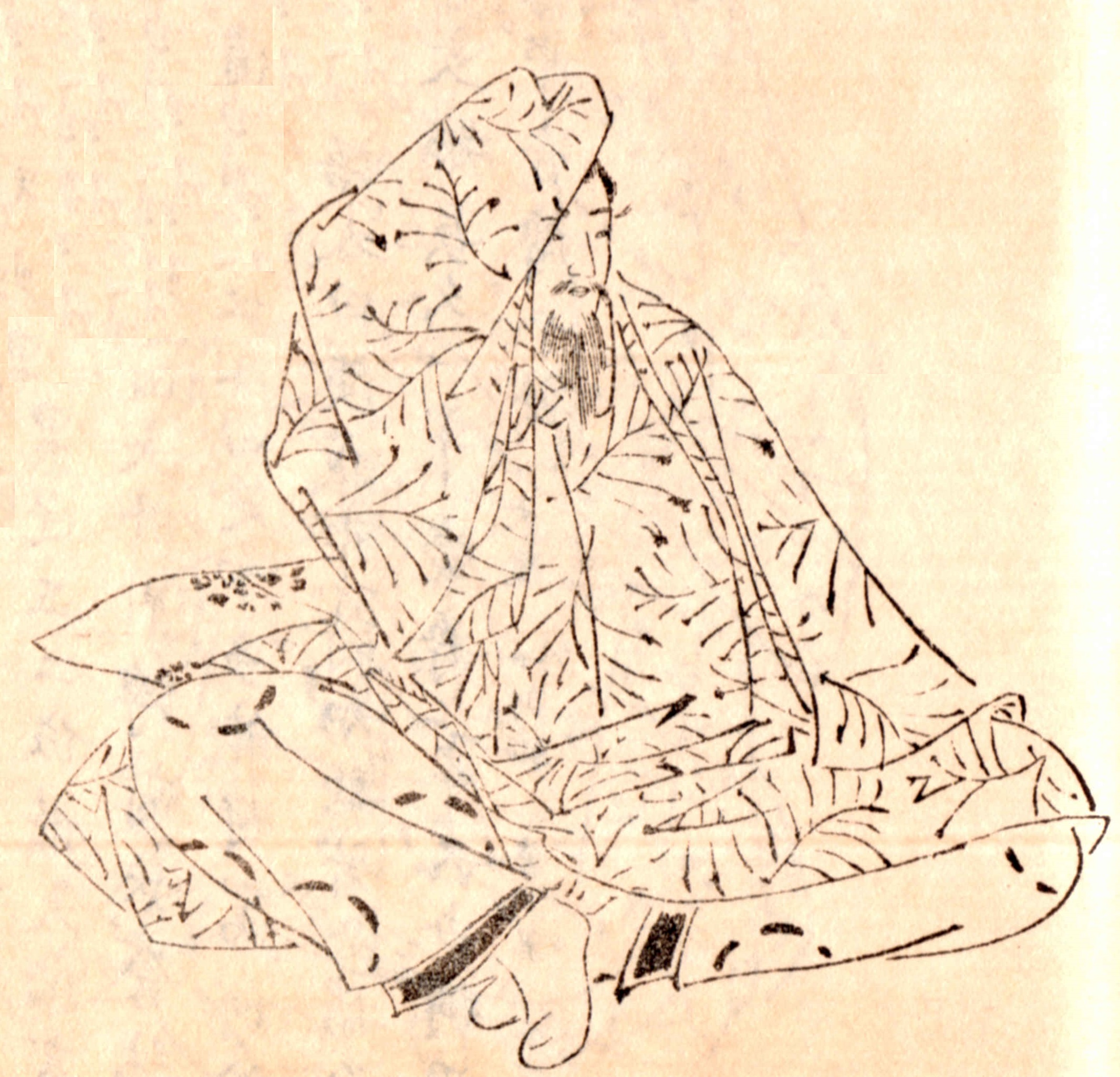 Japanese book "前賢故実"（Zenken-Kojitsu) Kikuchi Yōsai (菊池容斎)drawn. published in 1903.3.13